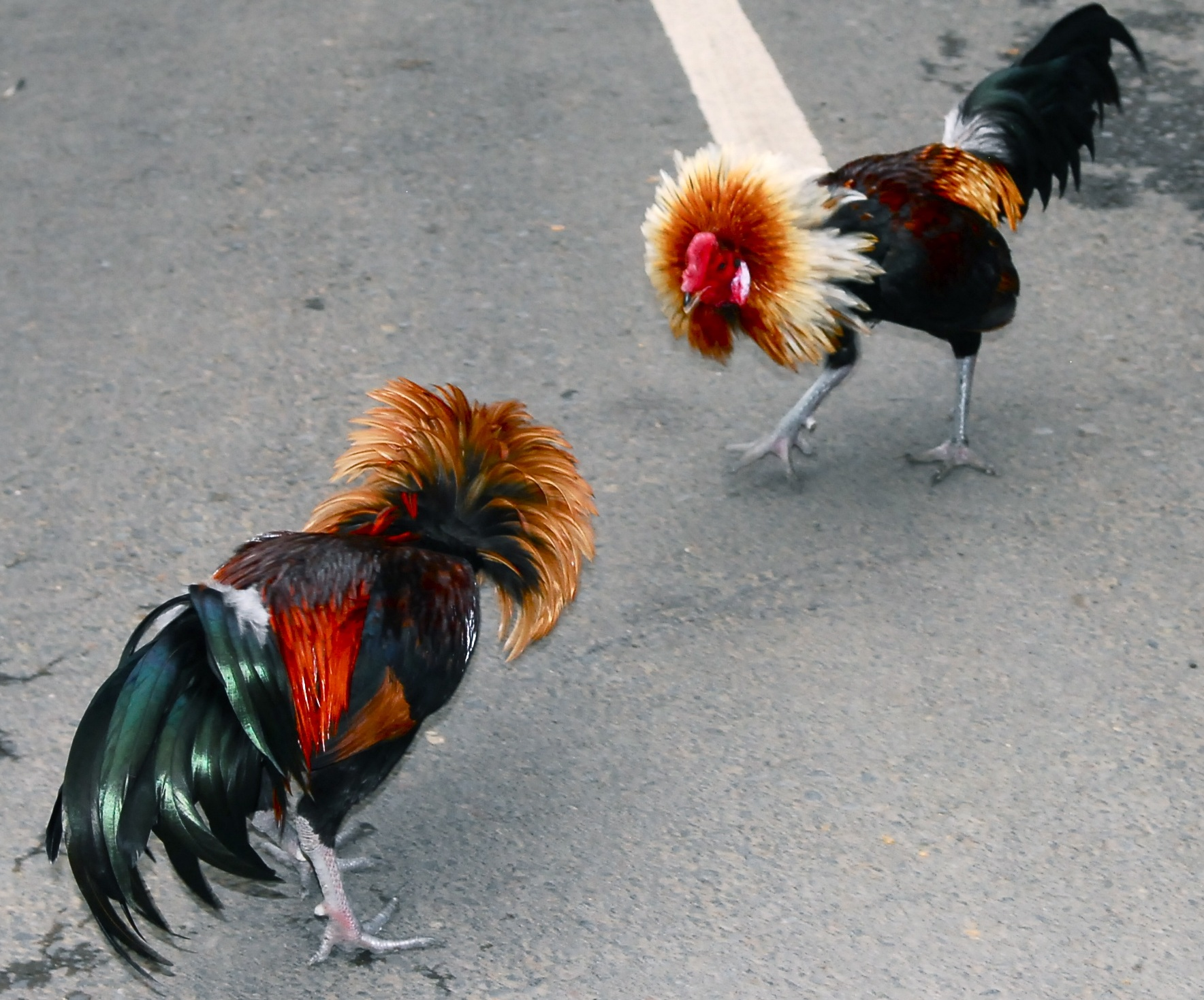 A pair of Indonesian roosters about to fight. Ubud, Bali.